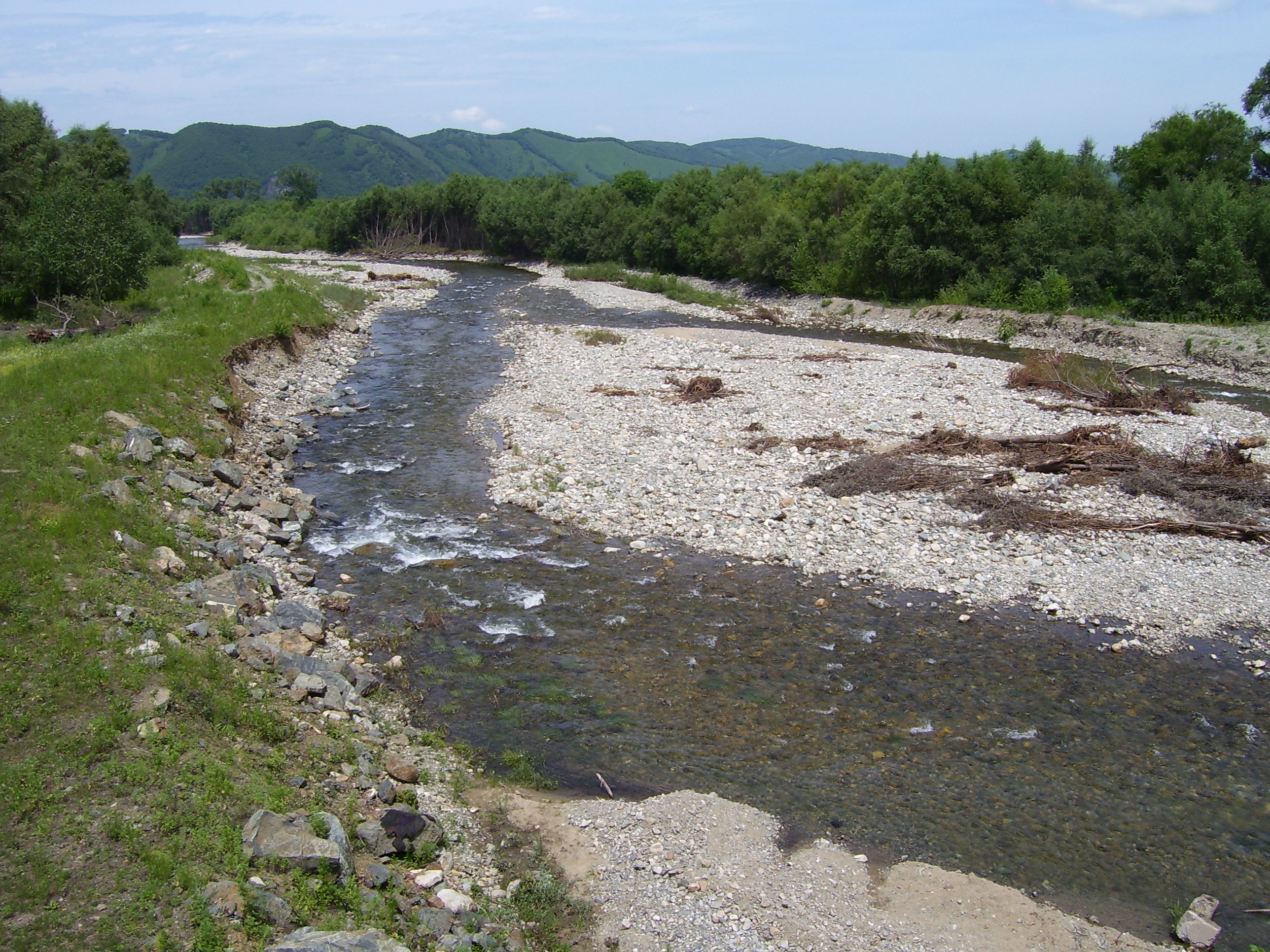 The Vodopadnaya River (literally "Waterfall River") in Primorsky Krai, Russian Far East.